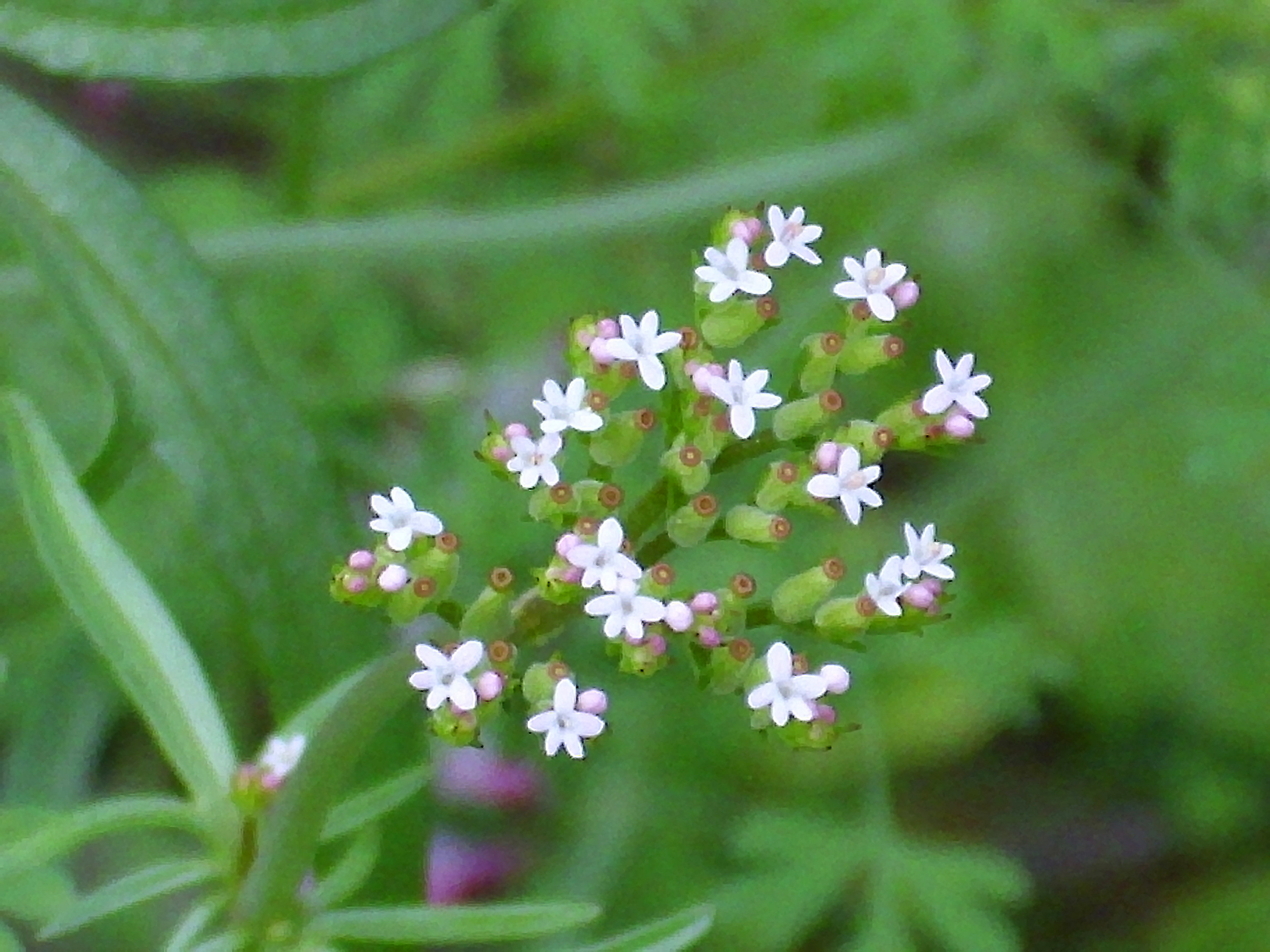 Centranthus calcitrapa flowers close up, El Tamaral, Sierra Madrona, Spain